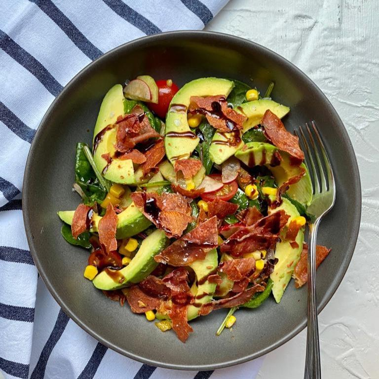 Veeno salad